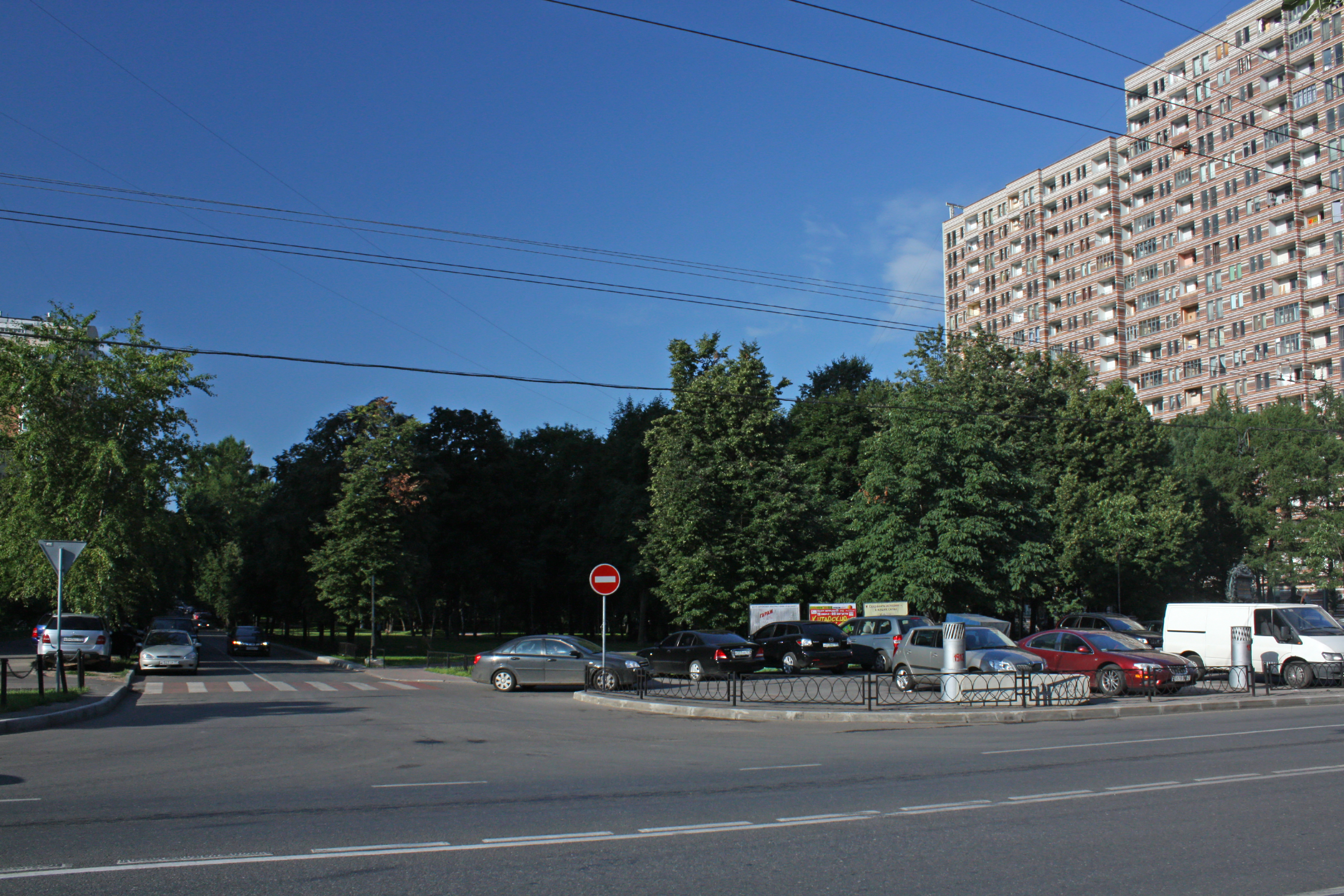 View on boulevard of General Karbyshev from outside street of Marshal Tukhachevsky